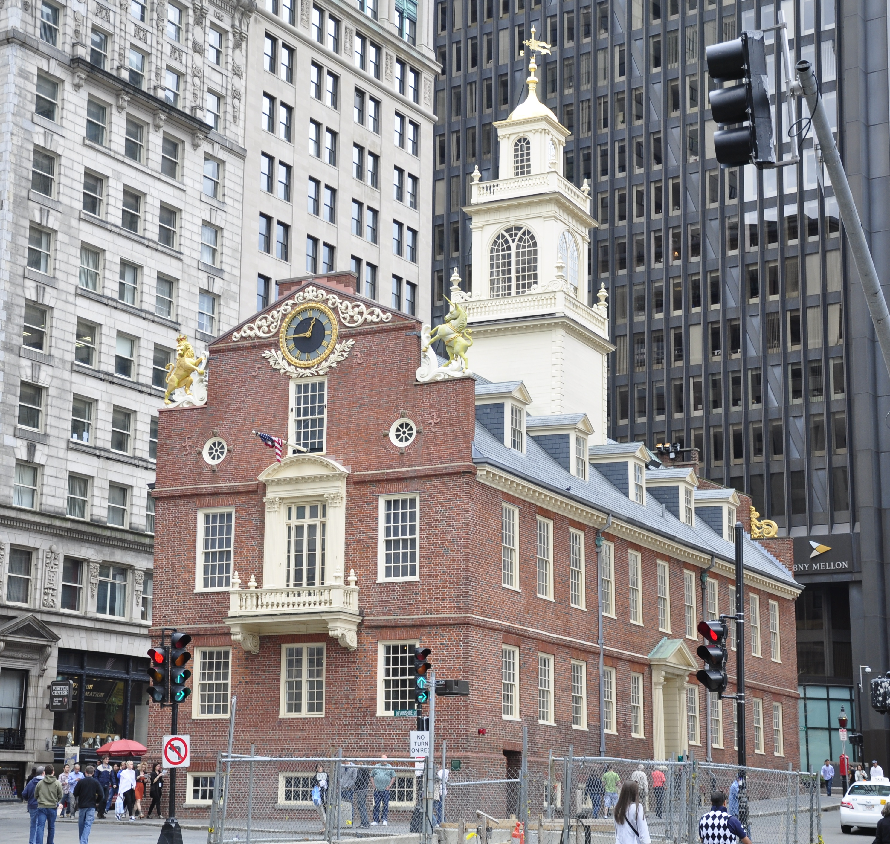 Old Mass State House